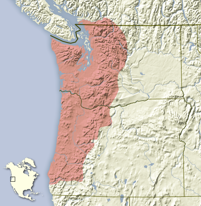 Distribution map of Townsend's chipmunk